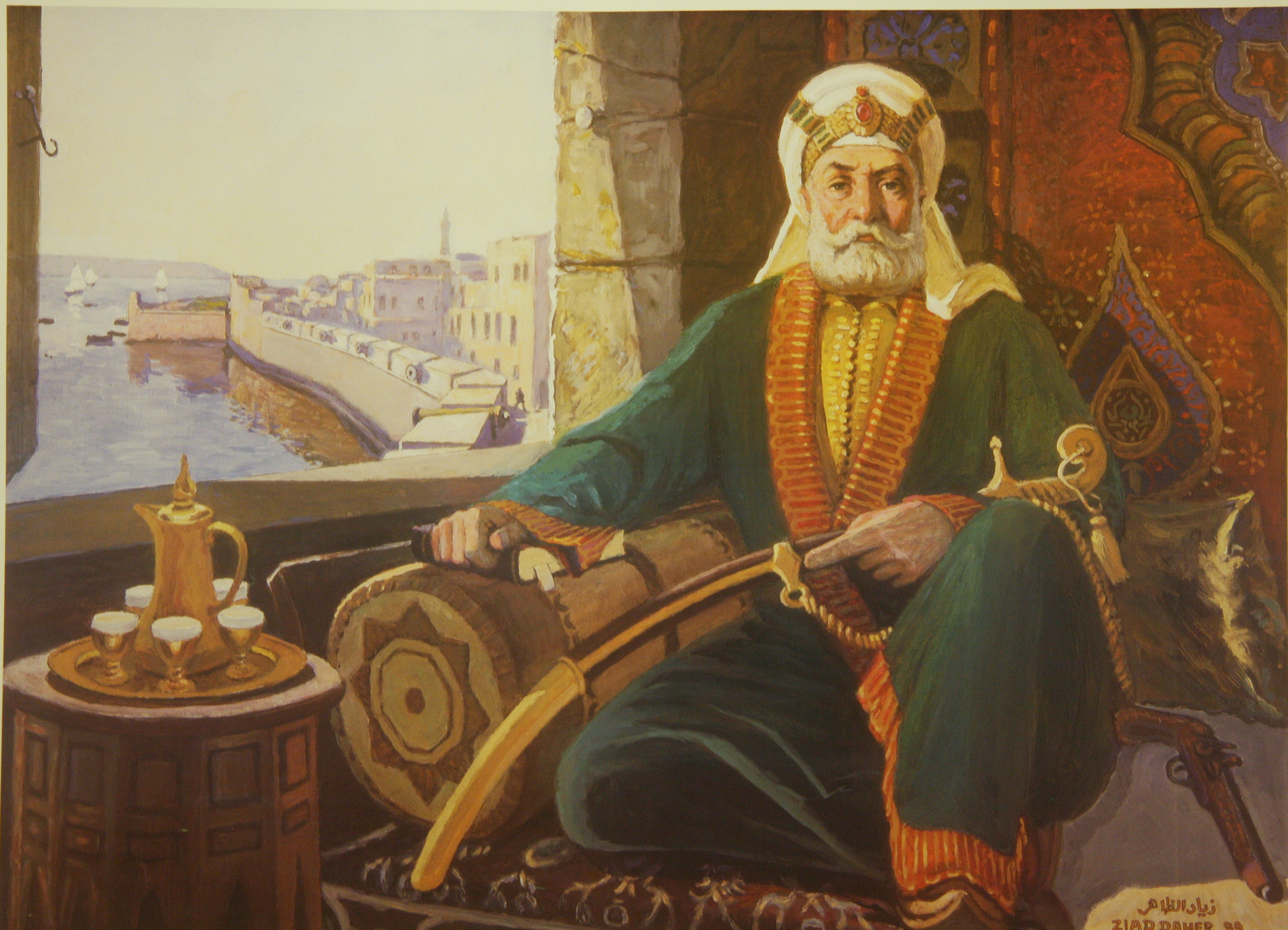 A painting of Daher el-Omar (born ca. 1690, died August 21, 1775) who was the Arab-Bedouin ruler of the Galilee district of the southern Levant during the mid-18th century. The founder of modern Haifa, he fortified many cities, among them Acre.